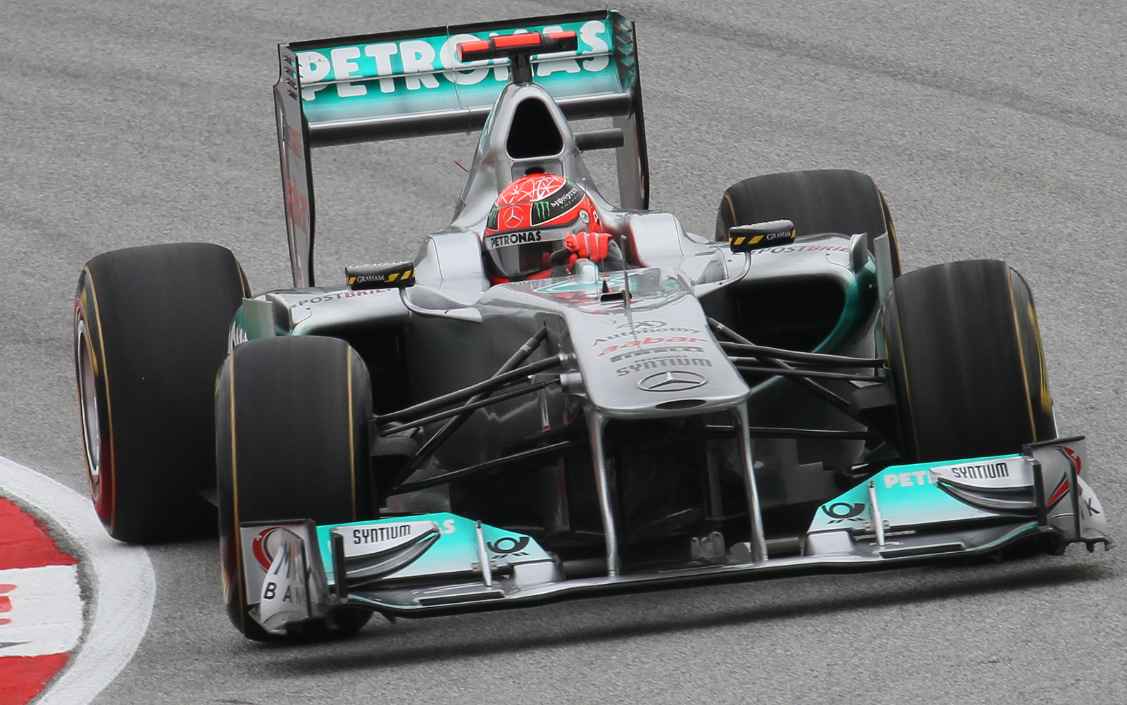 Formula One 2011 Rd.2 Malaysian GP: Michael Schumacher (Mercedes) during the qualify session on Saturday.